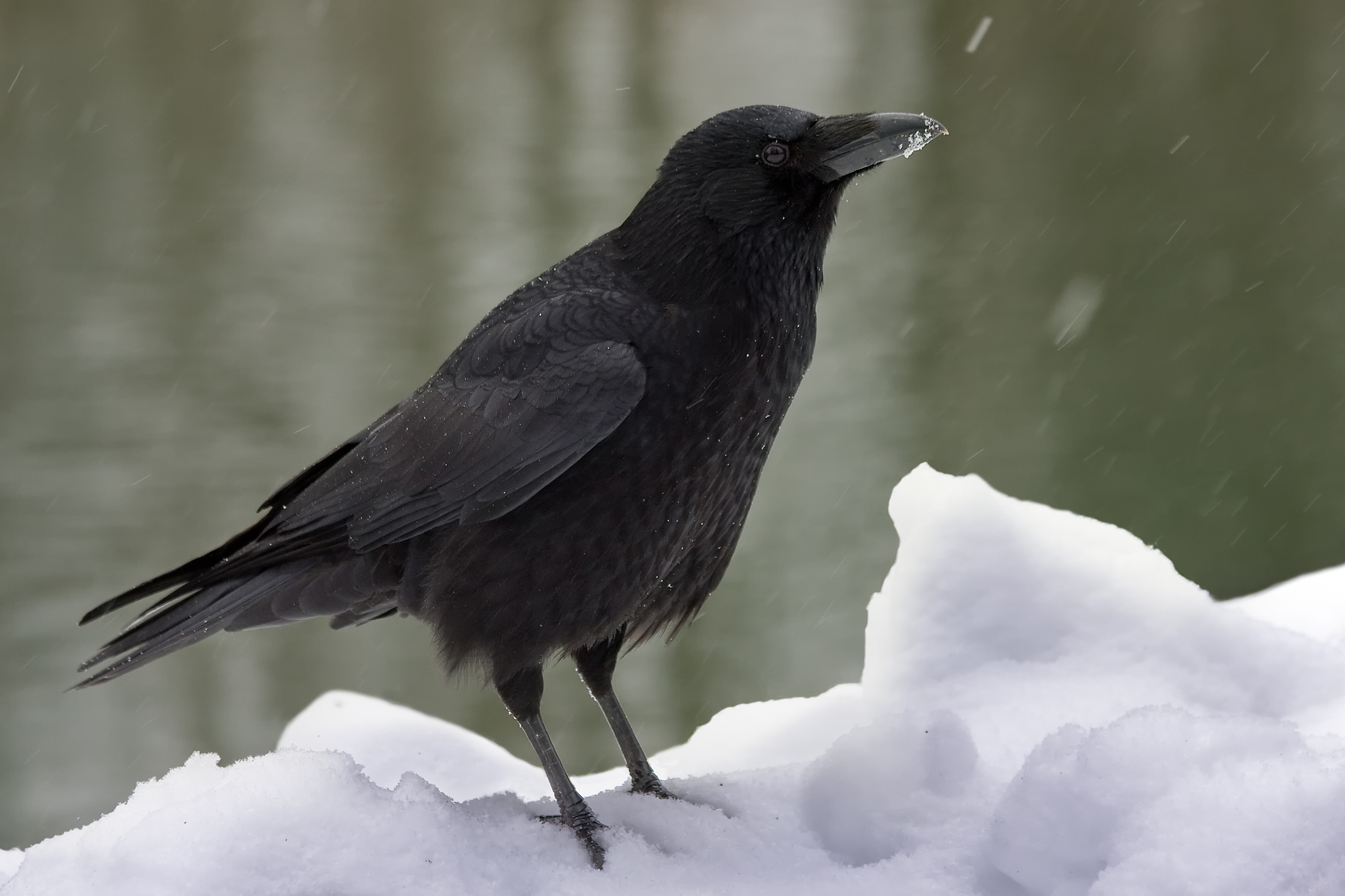 The Carrion Crow (Corvus corone) is a member of the passerine order of birds and the crow family which is native to western Europe and eastern Asia.